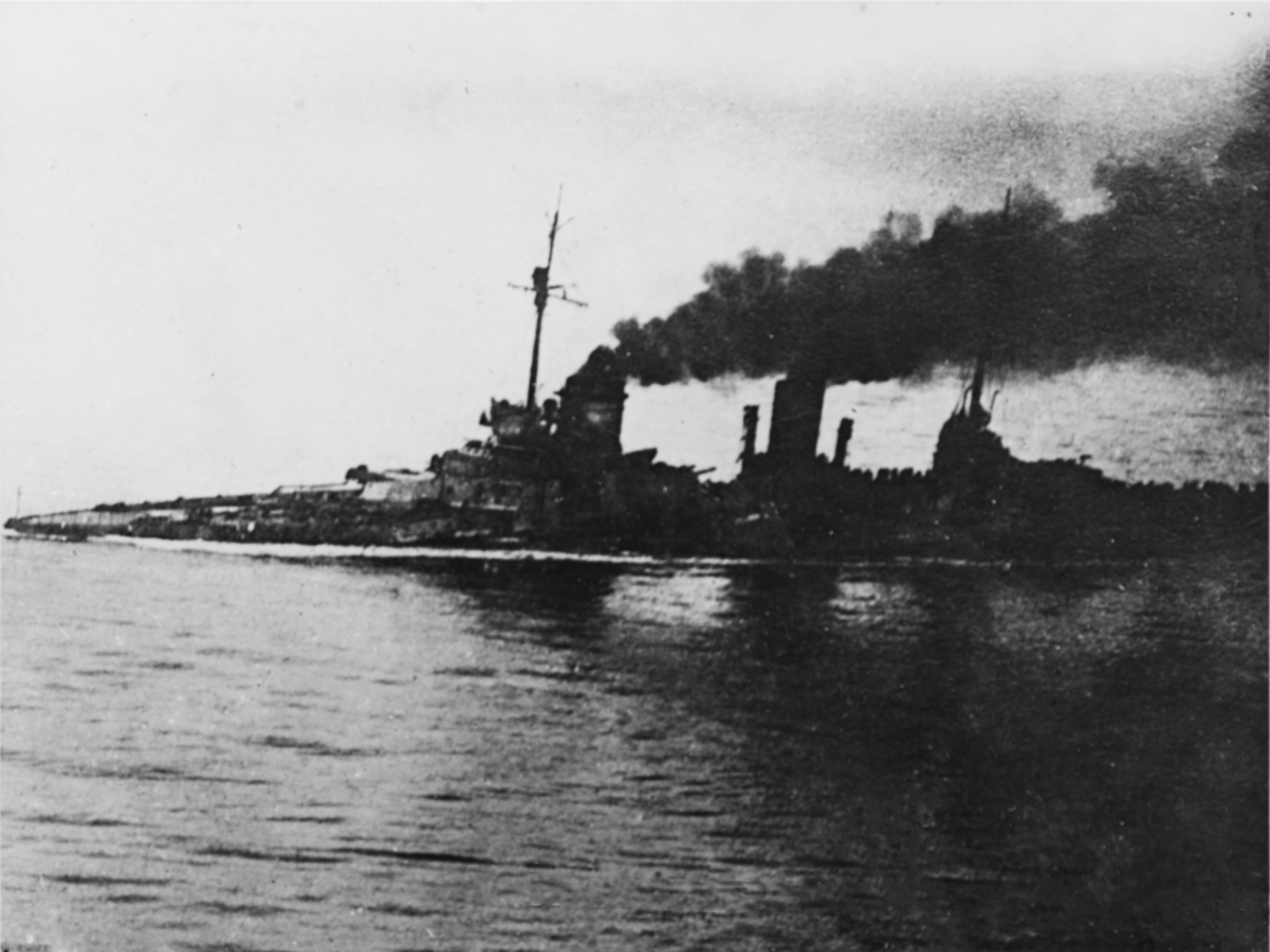 SMS Seydlitz (German Battle Cruiser, 1913-1919): badly damaged but underway while en route to port after the battle of Jutland, circa 1-2 June 1916. Note that her bow is nearly submerged due to torpedo and shell hits forward.